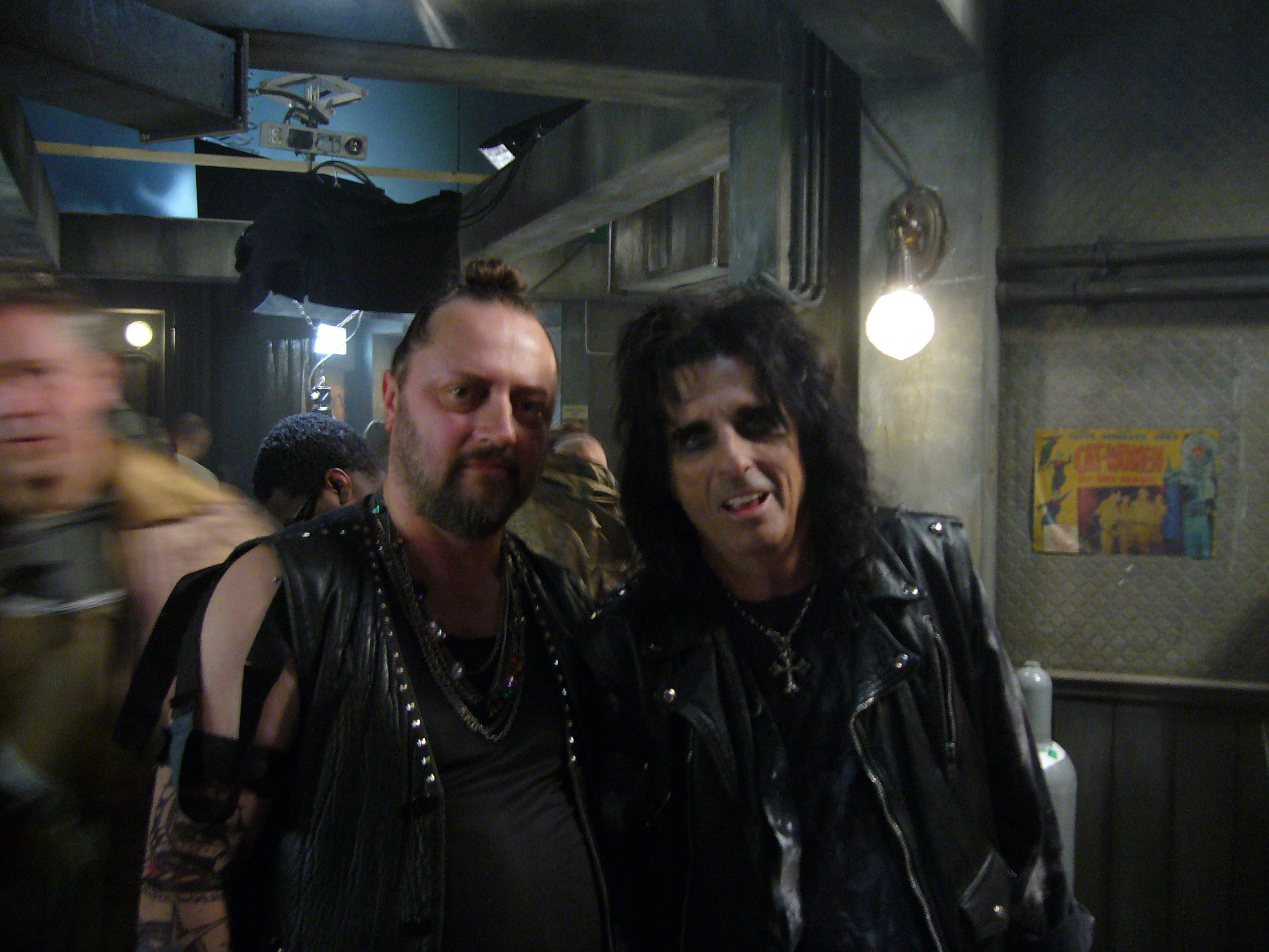 With Alice Cooper during shootings for a commercial